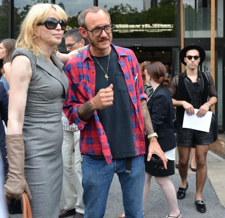 Courtney Love with Terry Richardson - Taken on September 10th, 2011 outside of Alexander Wang's show during New York Fashion Week.